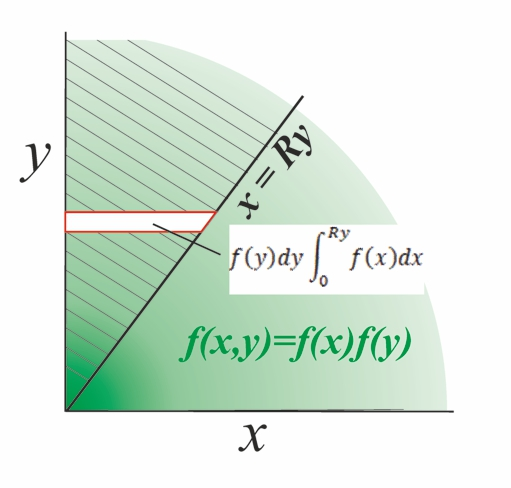 Math working to find the probability density of a ratio distribution